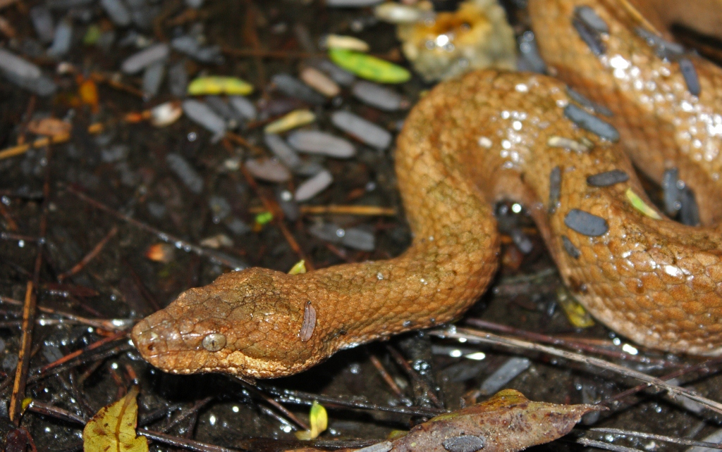 This very calm individual was found next to small swampy forest pond at the back of Playa Larga, Matanzas Province. We stayed watching & photographing it for a while and it didn't move at all.